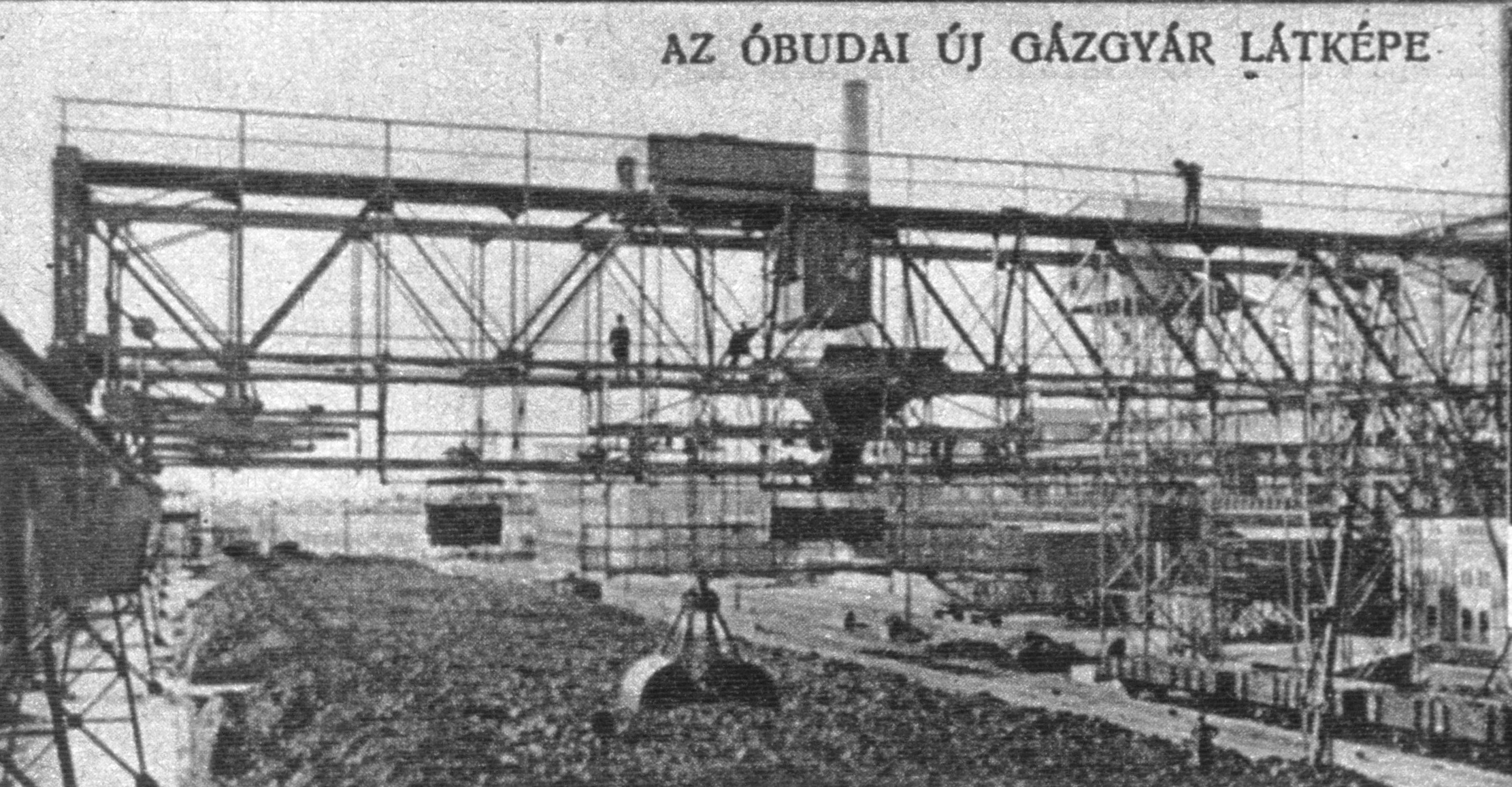 Junction of the Budapest–Esztergom railway line. Coal freight rail vehicles. Gas factory of Óbuda, Budapest, Hungary